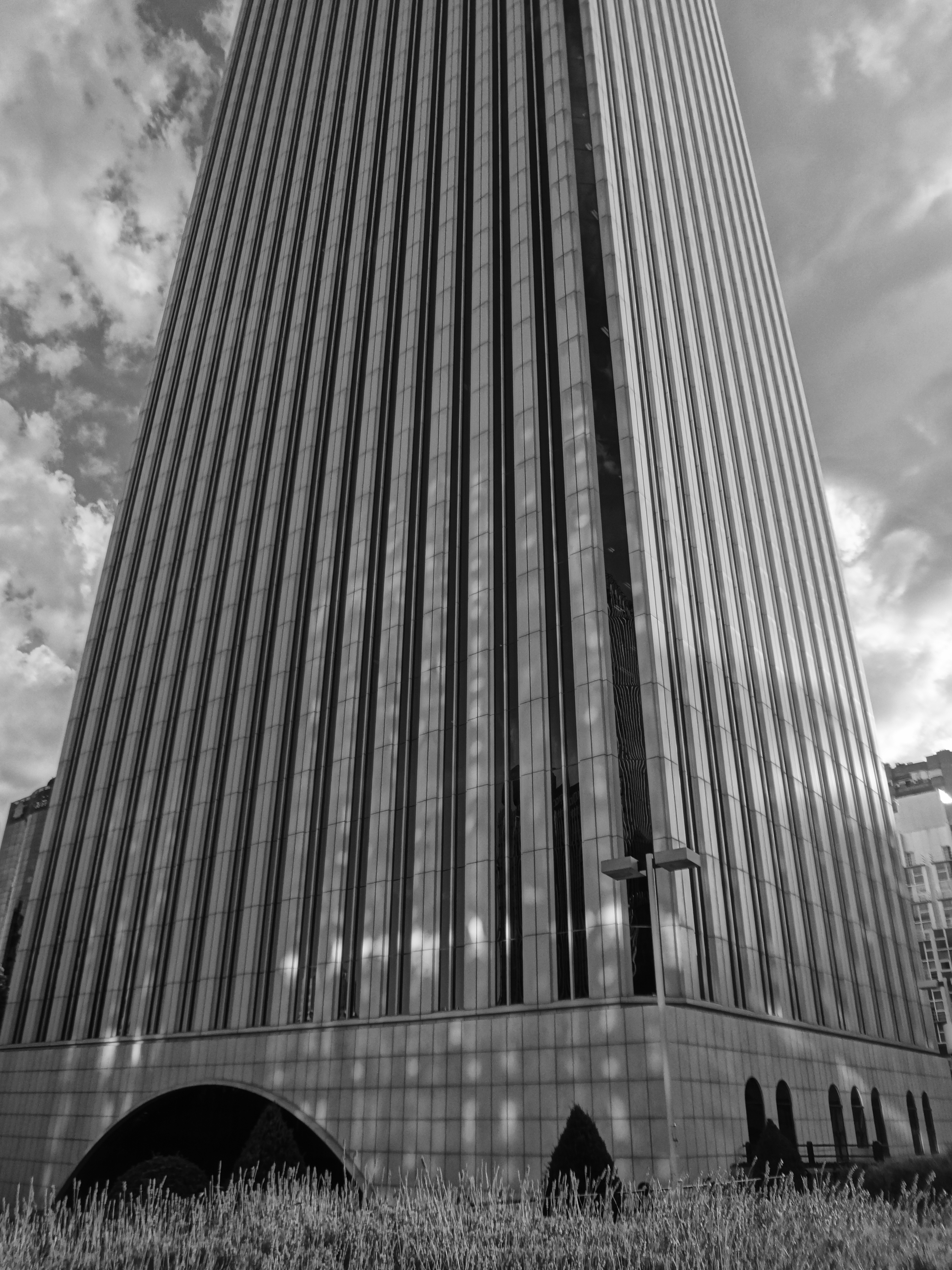 A Black and white photographs of the Torre Picasso (Picasso Tower) in Madrid, a skyscraper in Madrid that is 515 ft (157 m) with 43 floors that was designed by Minoru Yamasaki.